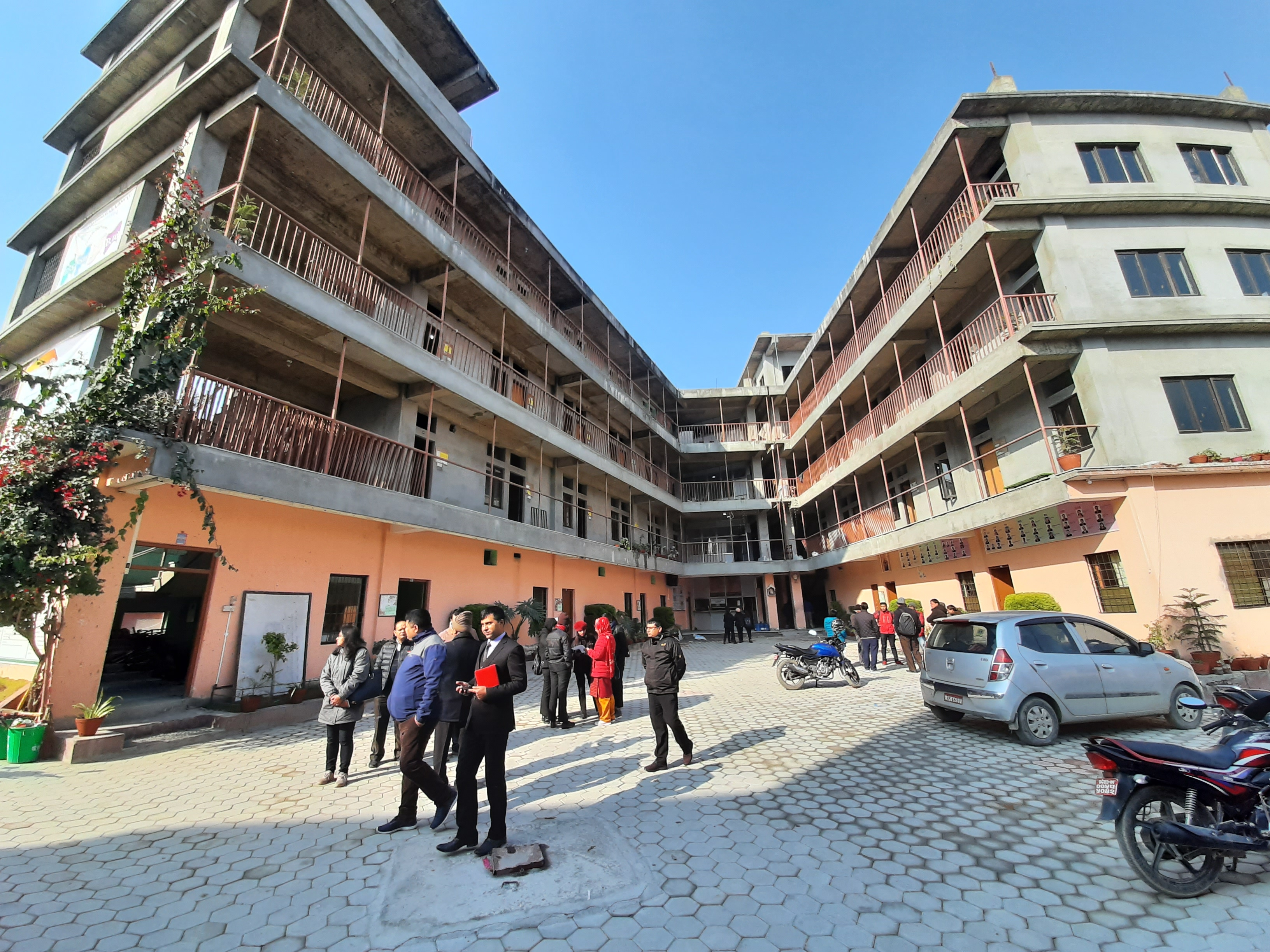 Janamaitri College building Under Construction